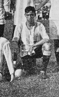 Zoilo Canavery with Racing Club.